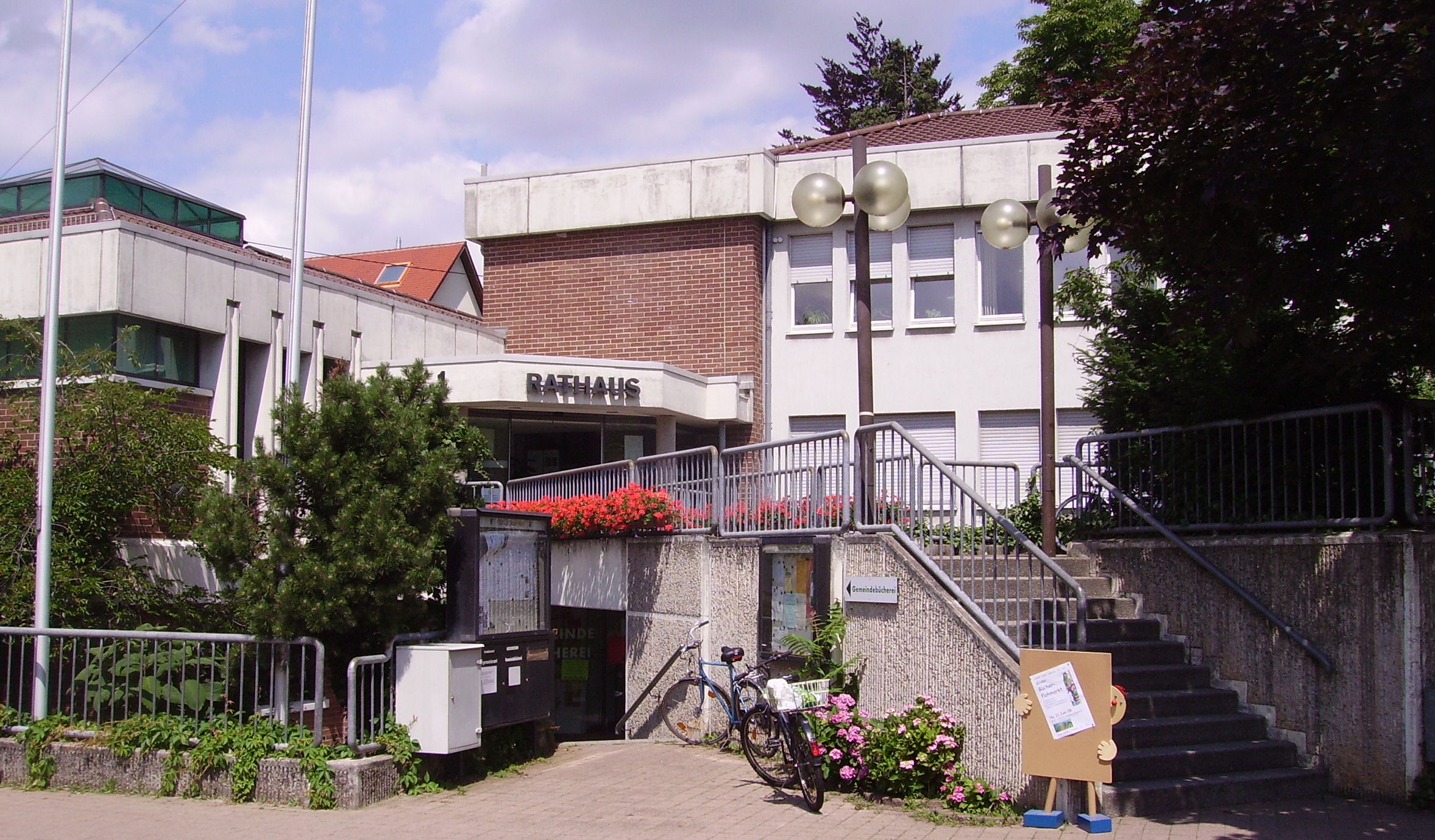 Dossenheim, Germany